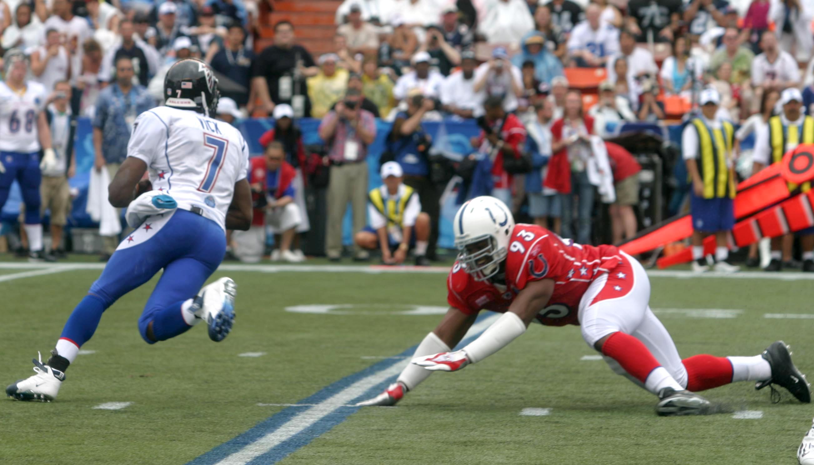 Michael Vick (en), of the Atlanta Falcons (en) scrambles past Colts defensive end Dwight Freeney in the 2006 Pro Bowl held at Aloha Stadium in Honolulu.